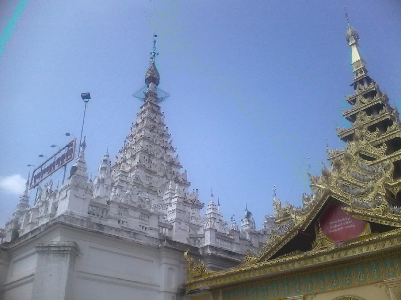 Chaung-U